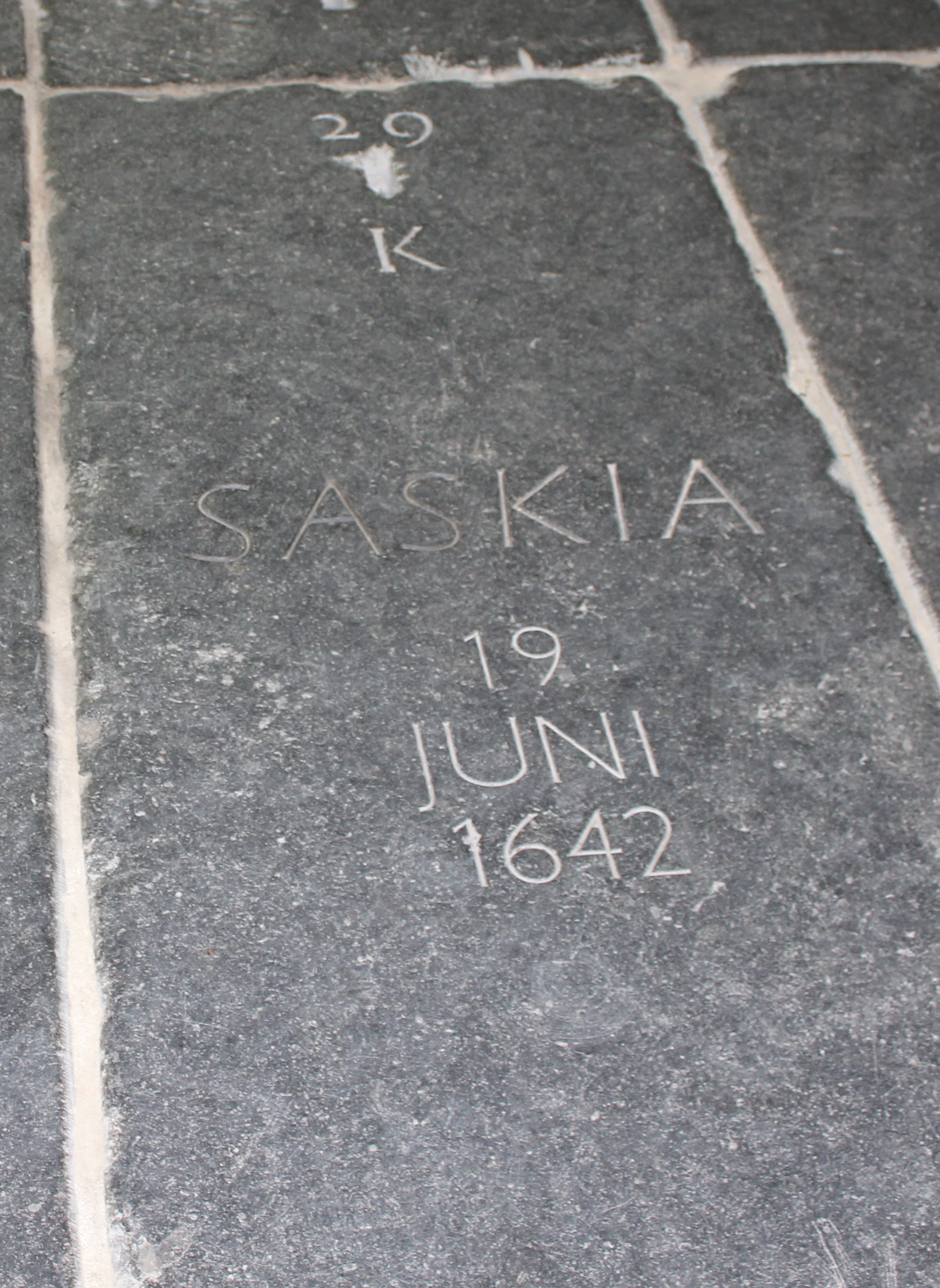 Graveplate of Saskia van Uylenburgh